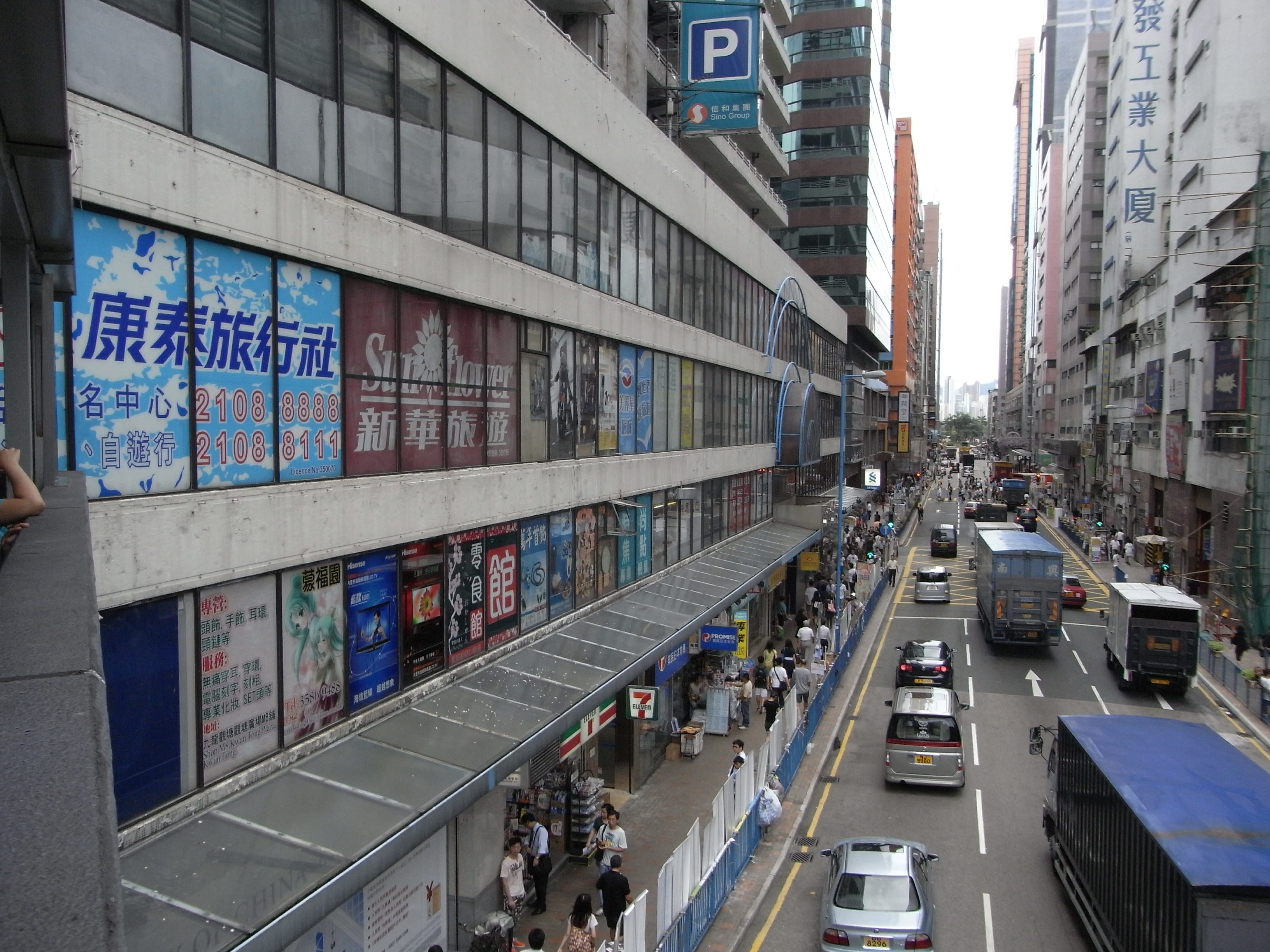 觀塘